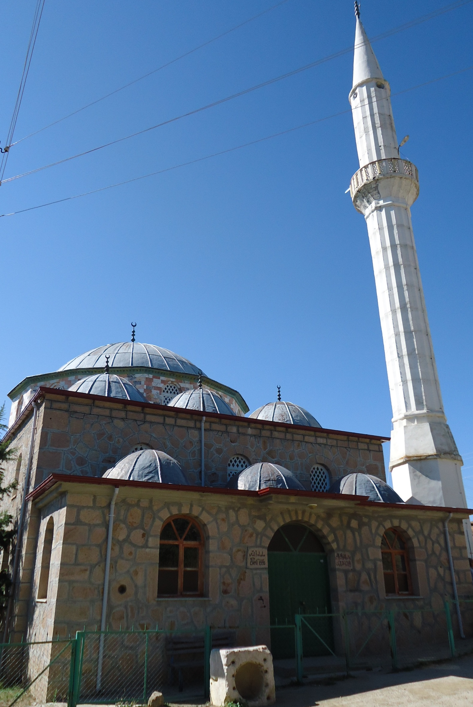 Kışladeresi Mosque, Çorum.